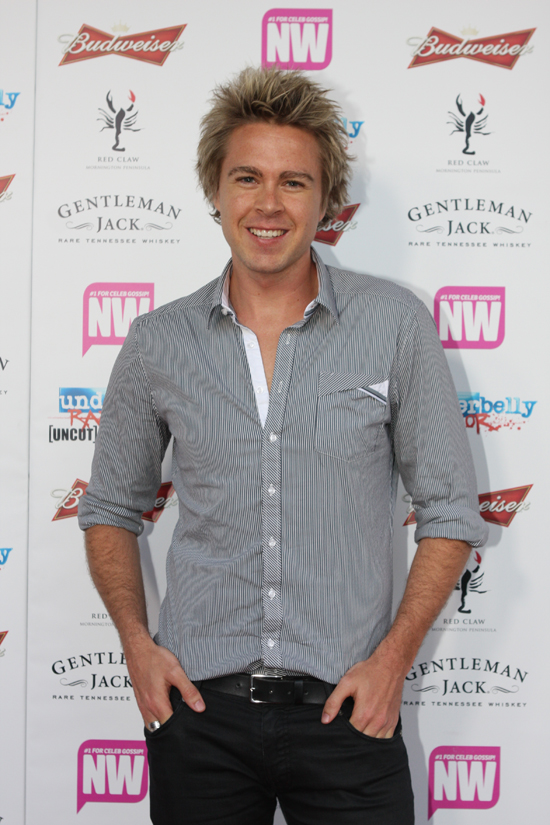 Stevie Nicholson at the Underbelly Razor DVD Launch Party in East Village, Surry Hills.